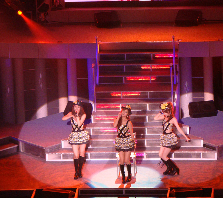 Ai Takahashi (left, onscreen), Risa Niigaki (center), and Reina Tanaka (right) of Morning Musume during the group's Platinum 9 Tour 2009 at Nakano Sun Plaza, Tokyo